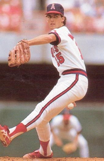 Image cropped from a baseball card of Kirk McCaskill from the 1987 California Angels Smokey set.